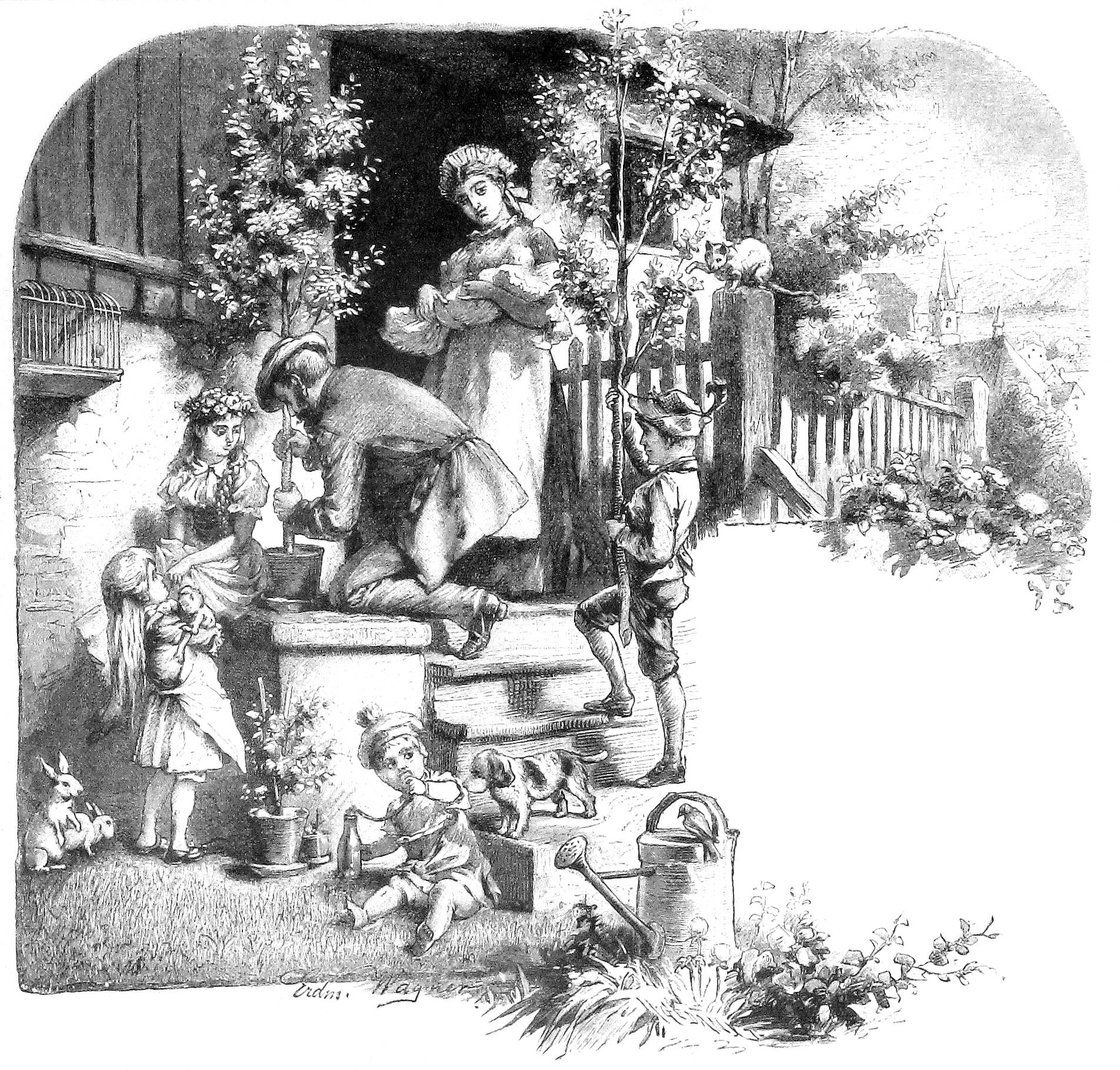 Image from page 393 of journal Die Gartenlaube, 1886.